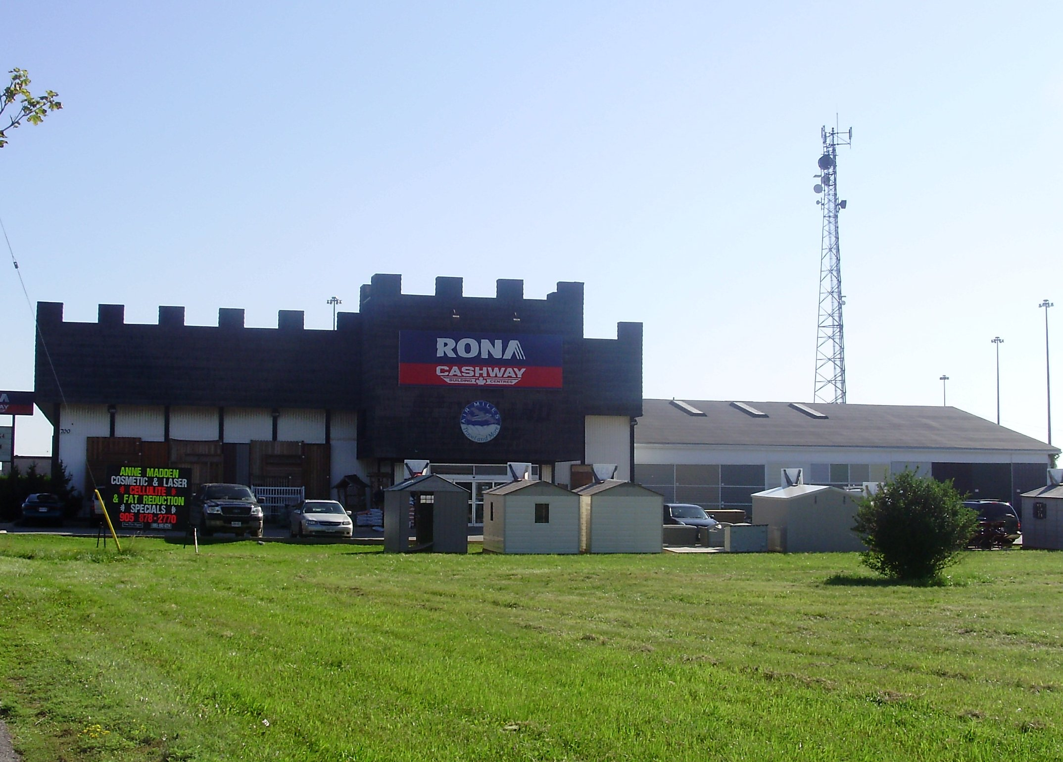 A Rona Cashway hardware and home improvement supply store in Milton, Ontario, Canada.